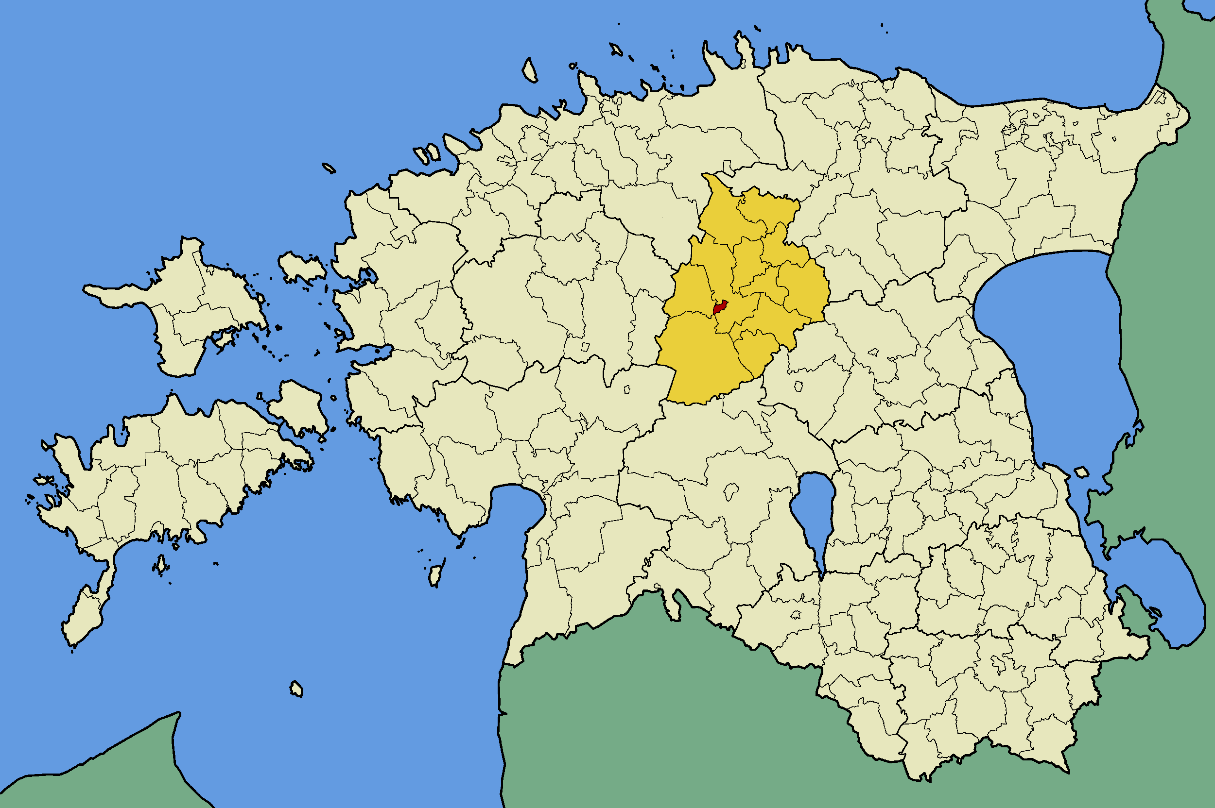 Map of Estonia with borders of municipalities (parishes). Järva county and Paide town municipality emphasized.